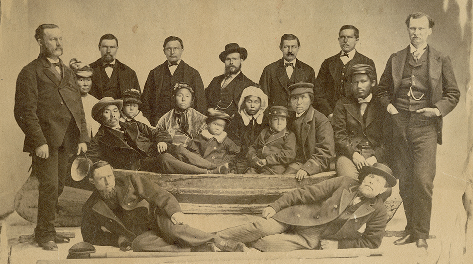 SS Polaris crew